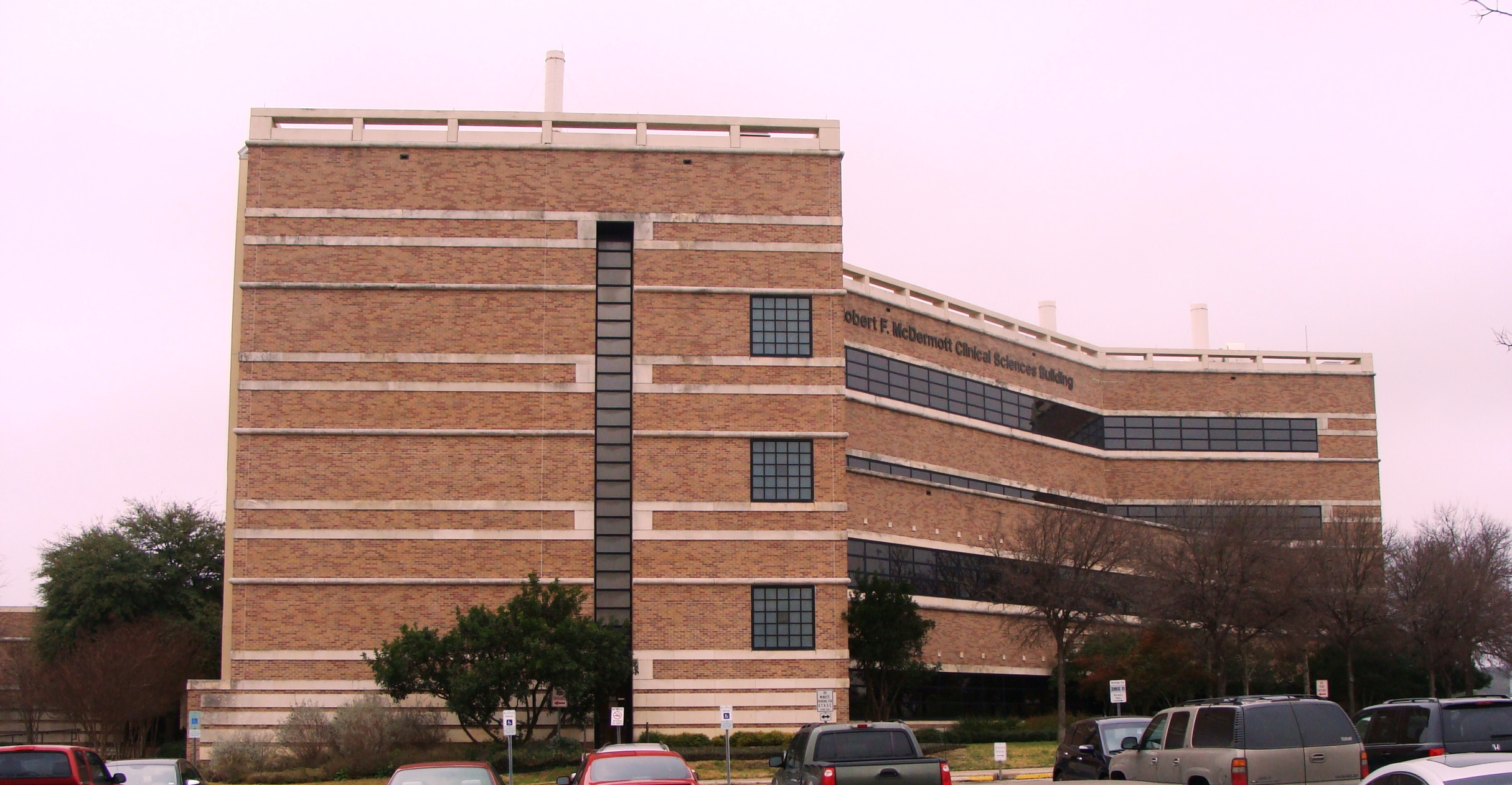 UT Health Science Center's Research Imaging Center (RIC)